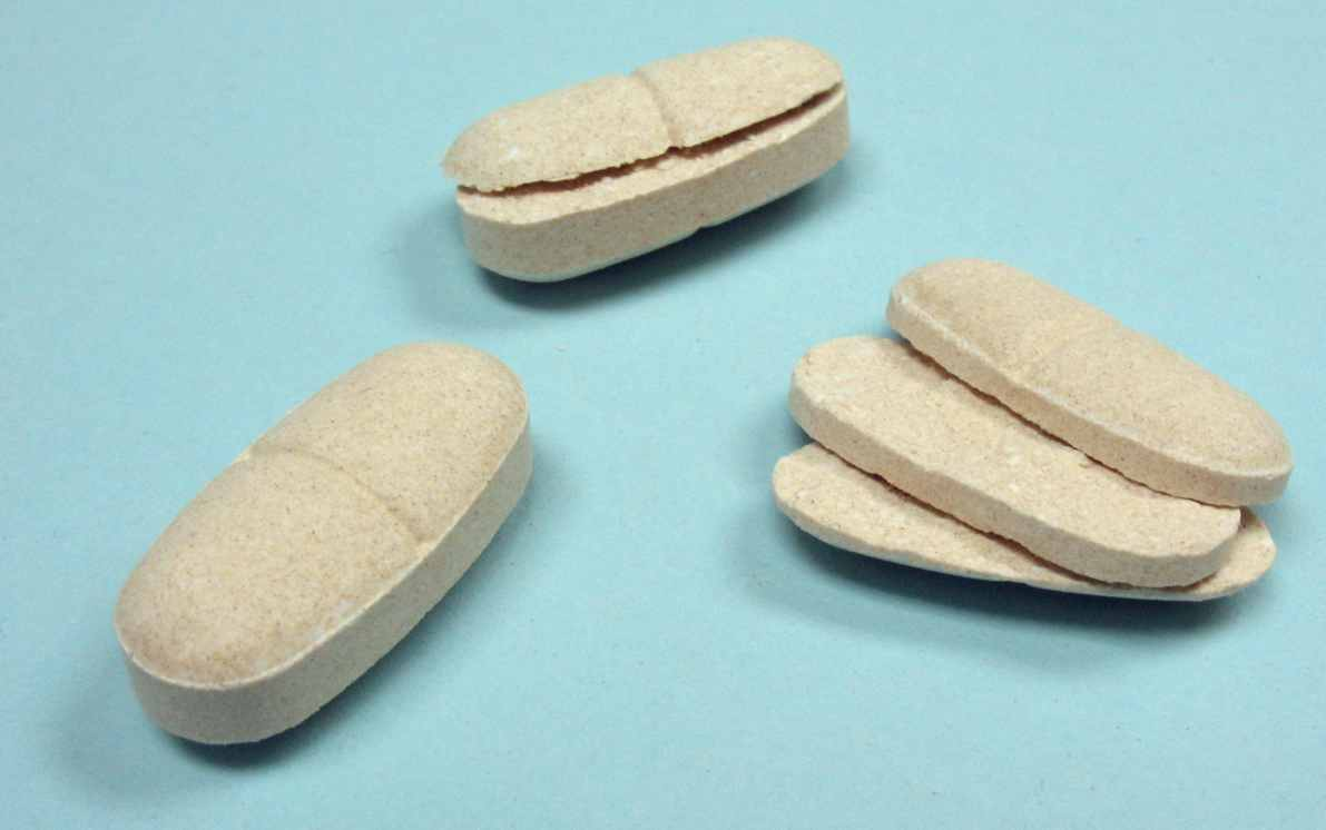 Capping (top) and lamination (right) failure modes of tablets. A normal tablet is shown (left) for comparison.